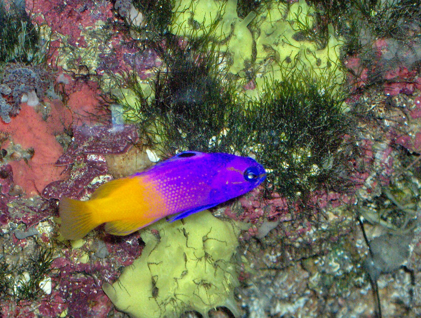 Royal gramma (Gramma loreto); Musée Océanographique de Monaco